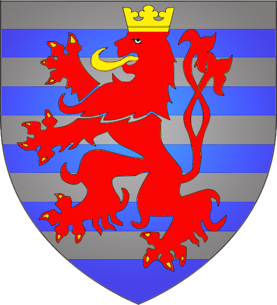 coat of arms of the Grand Duchy of Luxembourg